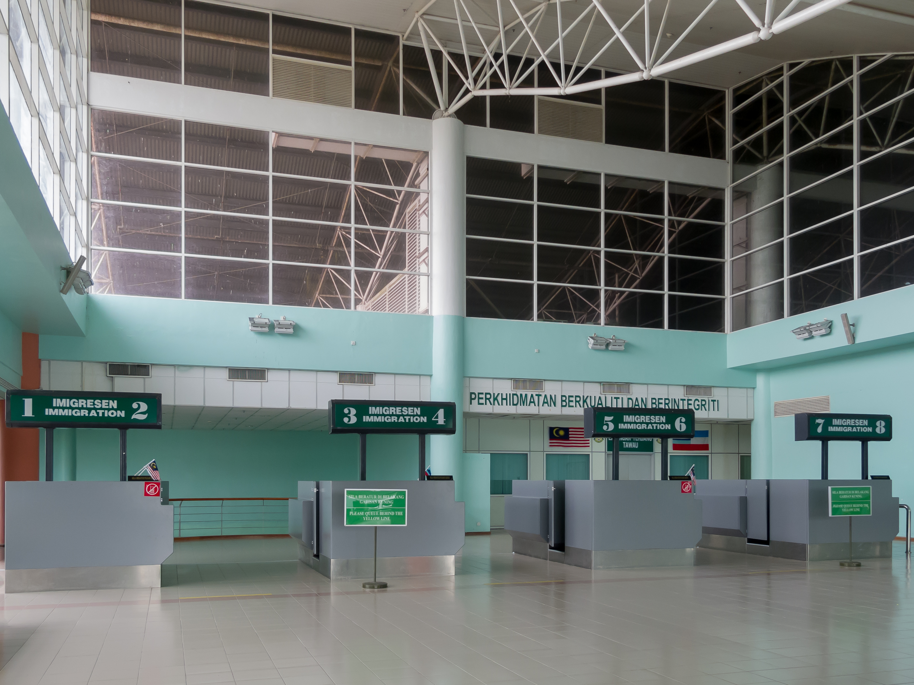 Tawau, Sabah, Malaysia: Immigration at Tawau Airport, Sabah, Malaysia.